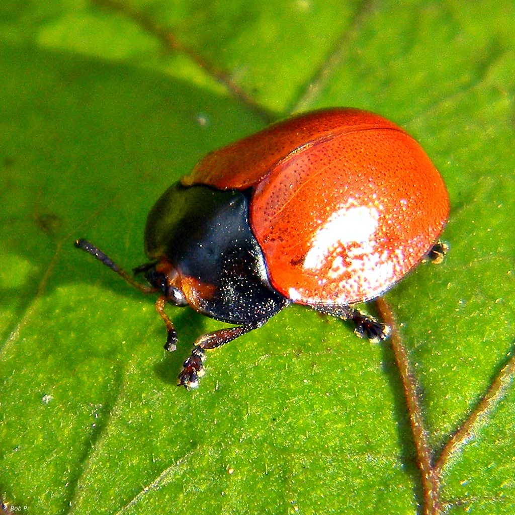 Tortoise beetle posing in glorious morning sunshine on her favorite food plant...morning glory.